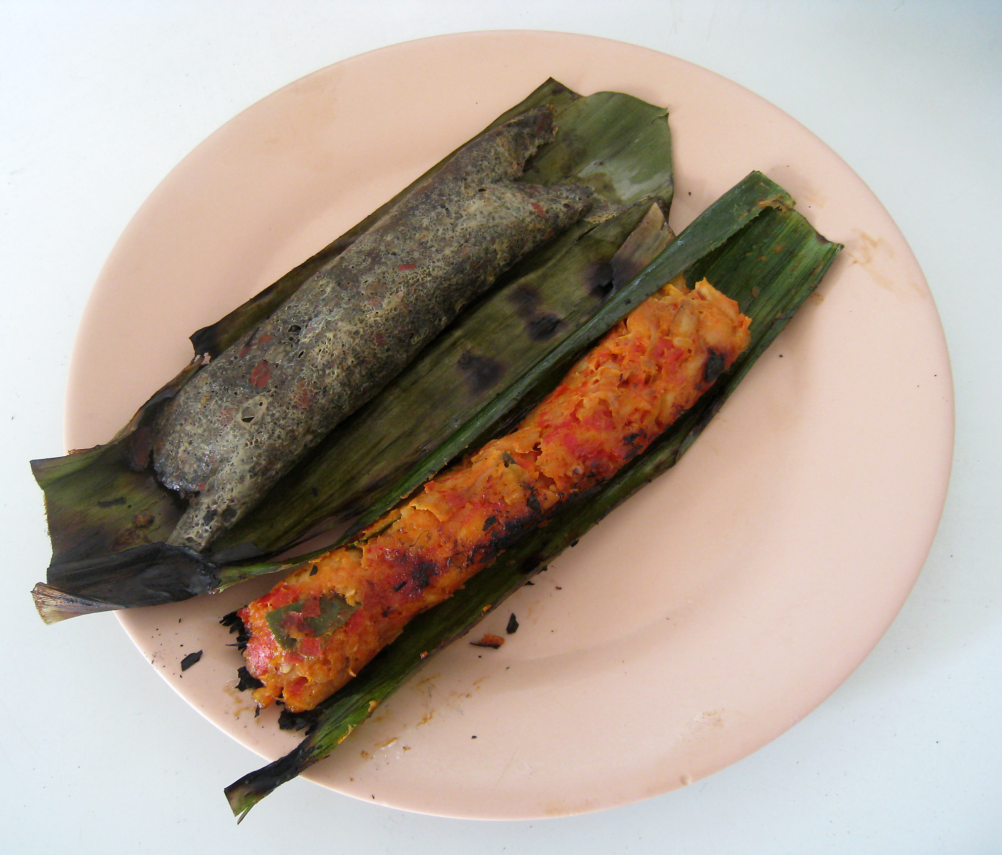 Frog eggs (top left) and boneless frog legs (bottom right) spiced and cooked in banana leaf (pepes). Swikee Purwodadi Restaurant, Jakarta, Indonesia.